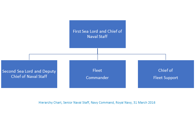 Own work using MS Word Smart Art and MS Paint based on